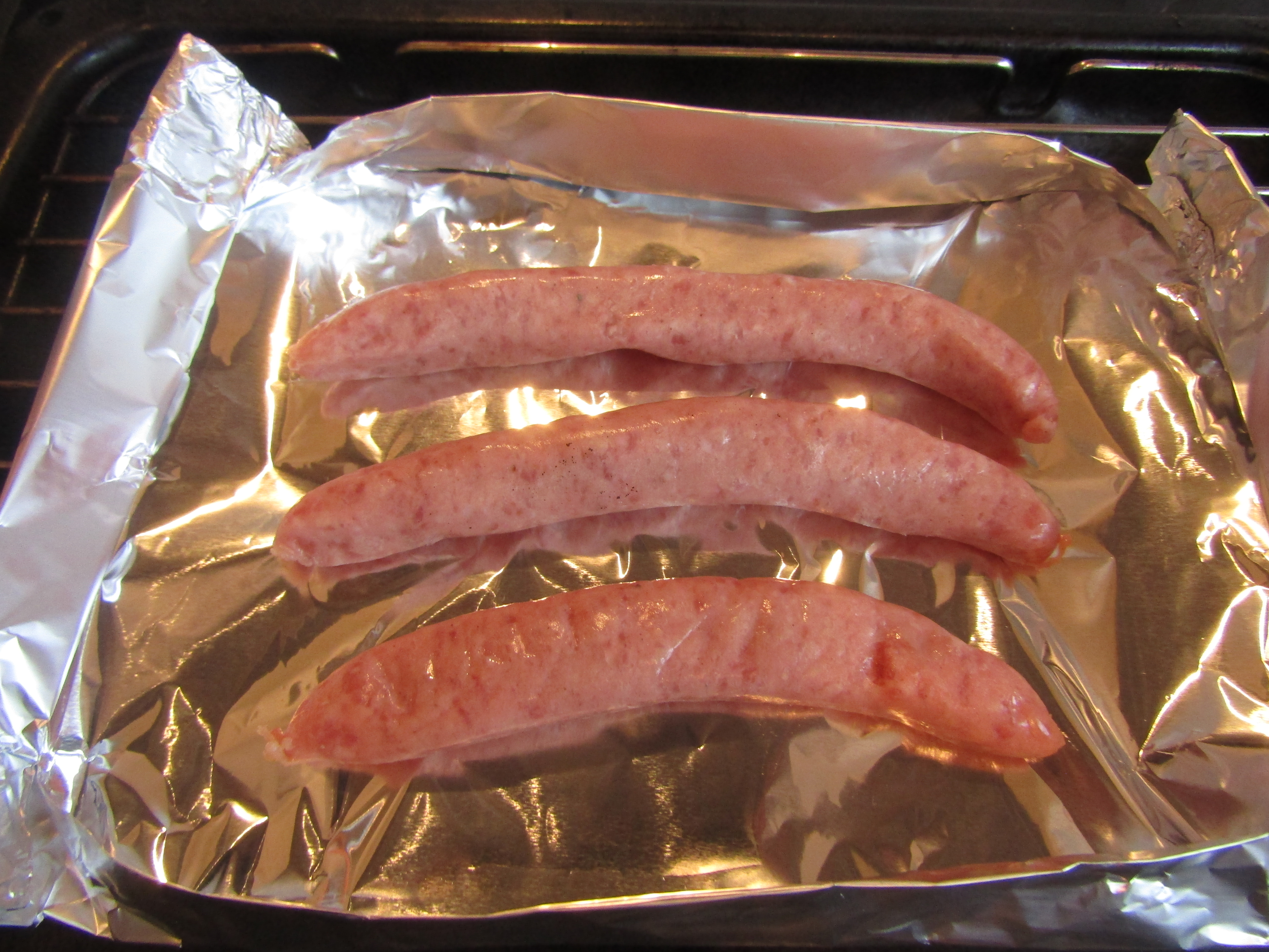 Three chipolata pork sausages ready to be cooked in a kitchen in the town of Sheringham, Norfolk, England.